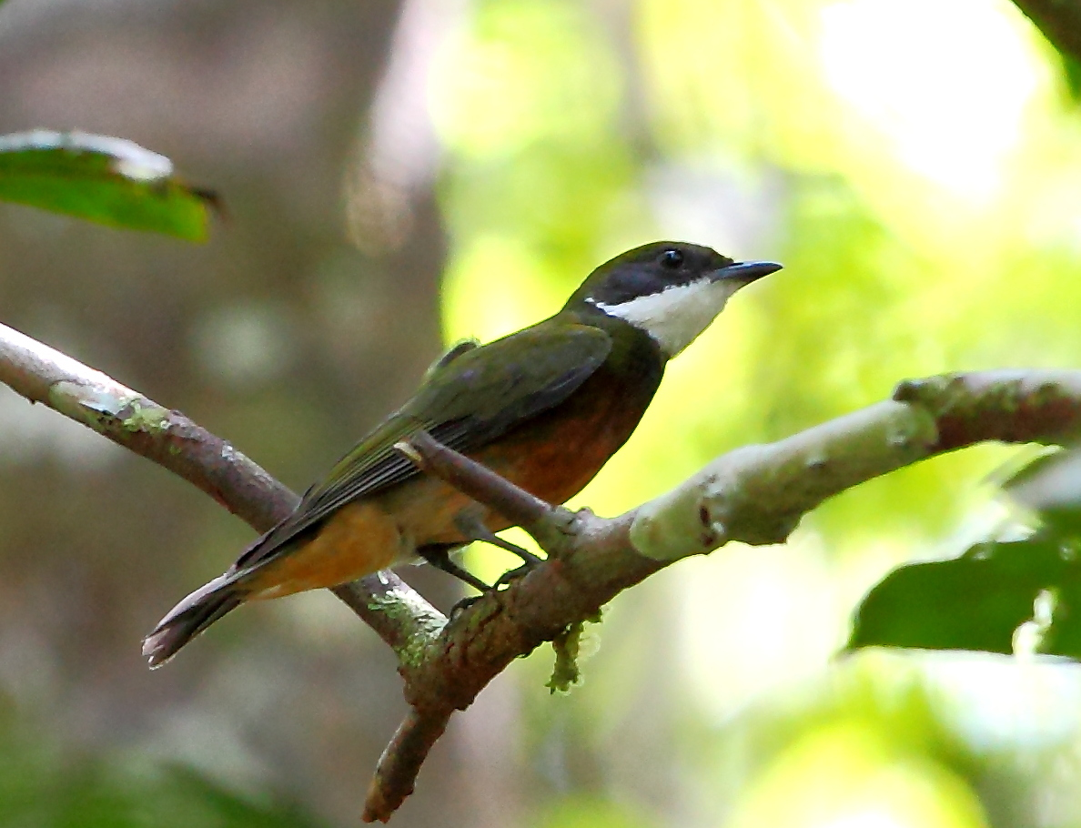 Yellow-crowned Manakin at Presidente Figueiredo - AM - Brazil